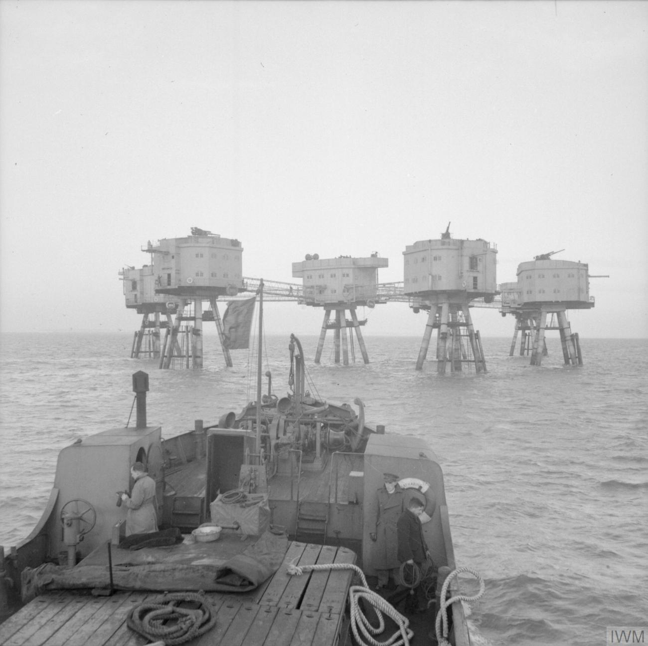 The British Army in the United Kingdom 1939-45 Maunsell sea fort in the Thames Estuary, manned by Anti-Aircraft Command crews, seen from an approaching supply boat, 19 November 1943.